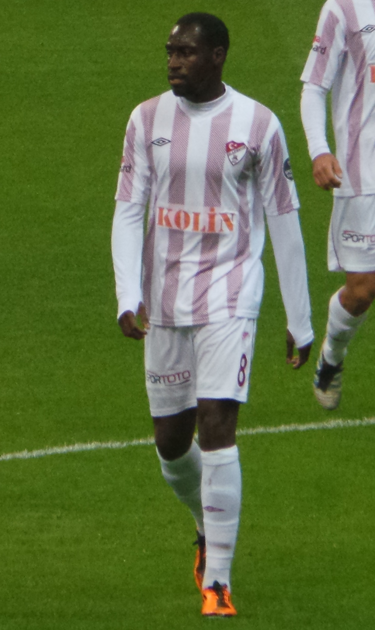 Sane'13-14